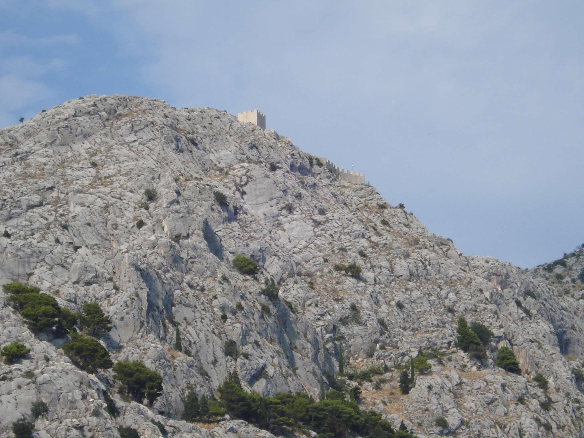 Starigrad Fortress (or Fortica Fortress) above the Town of Omiš, southern Croatia - southwest view